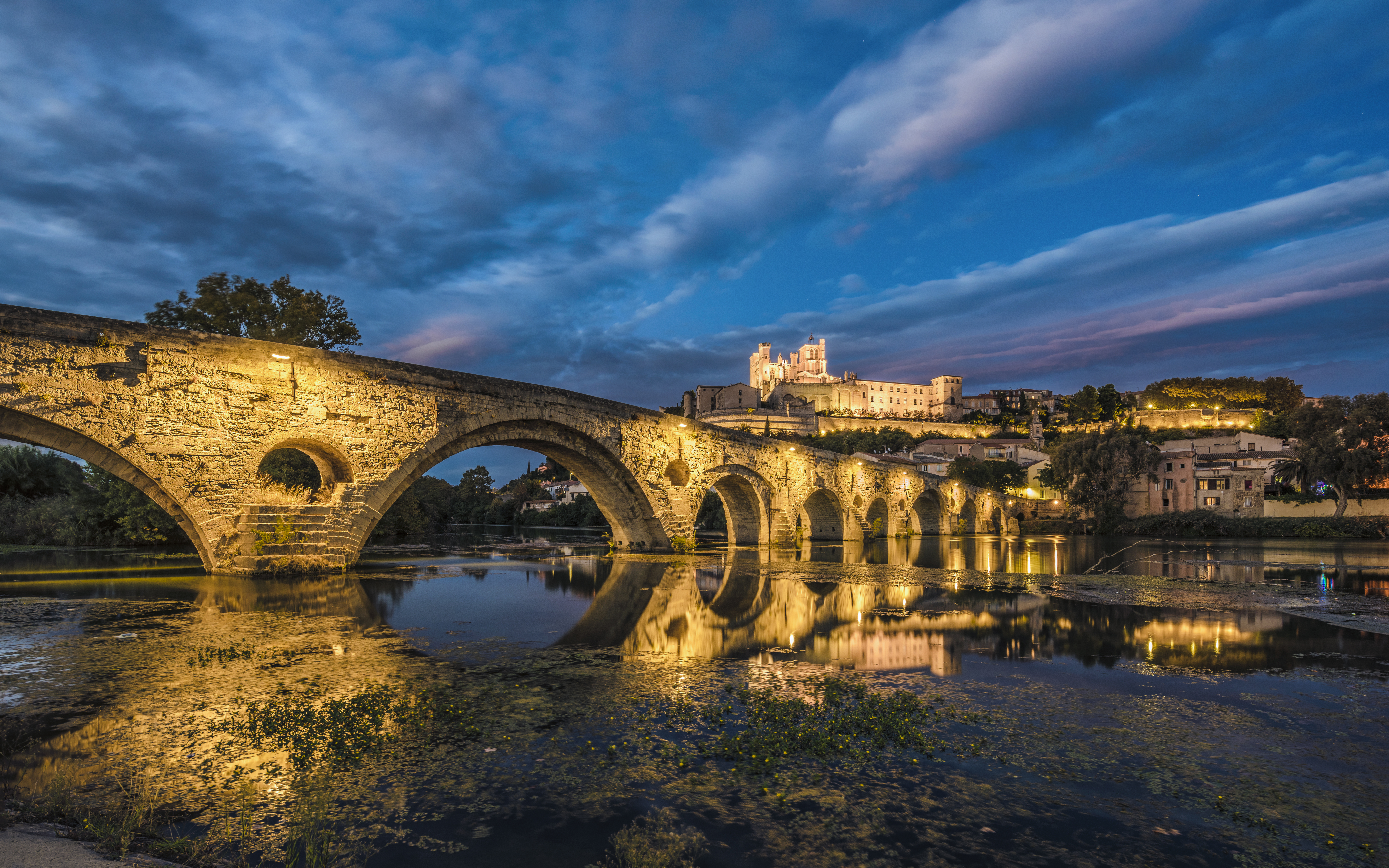 Pont Vieux de Béziers (bridge) and Cathédrale Saint-Nazaire de Béziers mirrored in the Orb River after the sunset. Béziers, Hérault, France